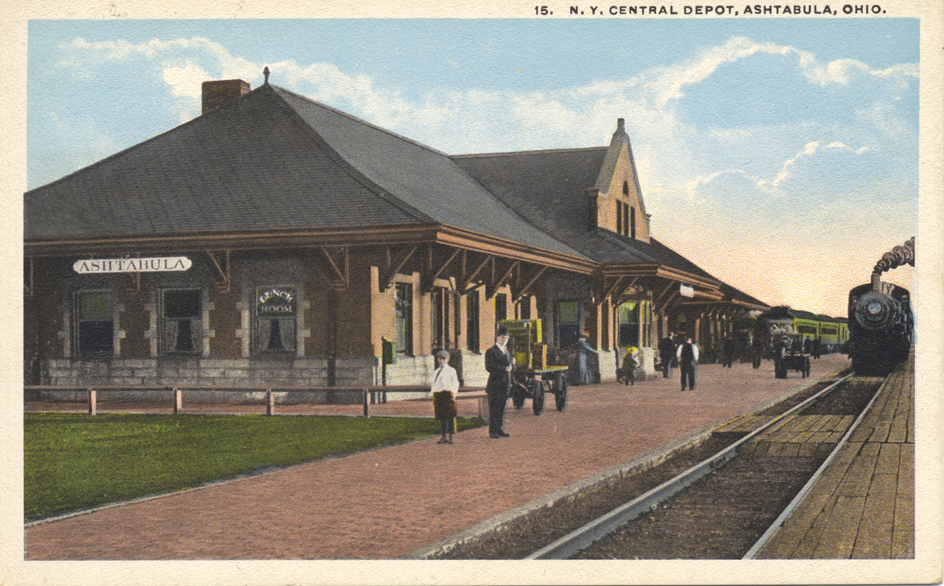 Persistent URL: Subject (TGM): Railroad stations; Railroad facilities